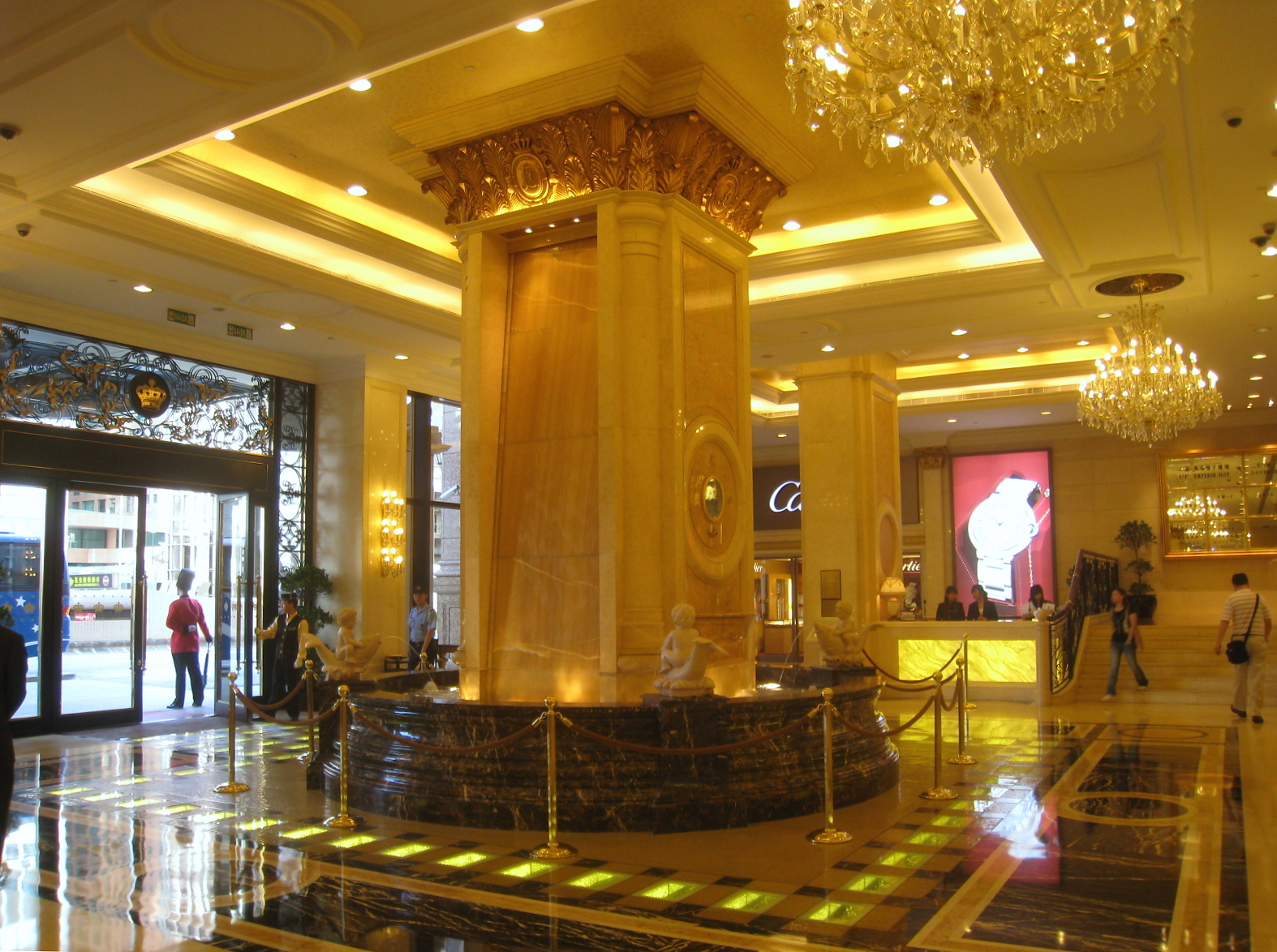 Macao Grand Emperor Hotel Lobby 英皇娛樂酒店 (澳門)